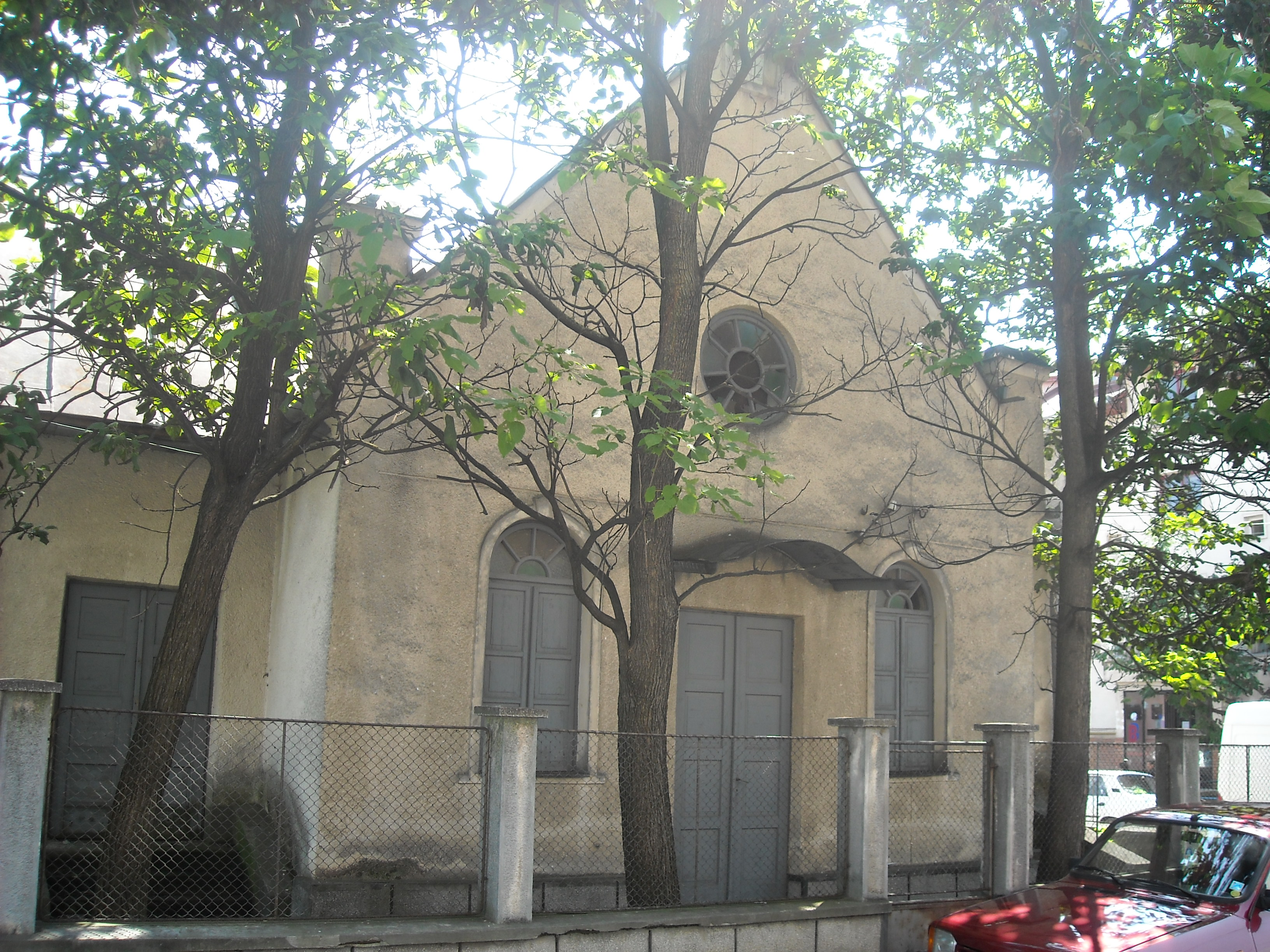 Haţeg/Hátszeg, synagogue